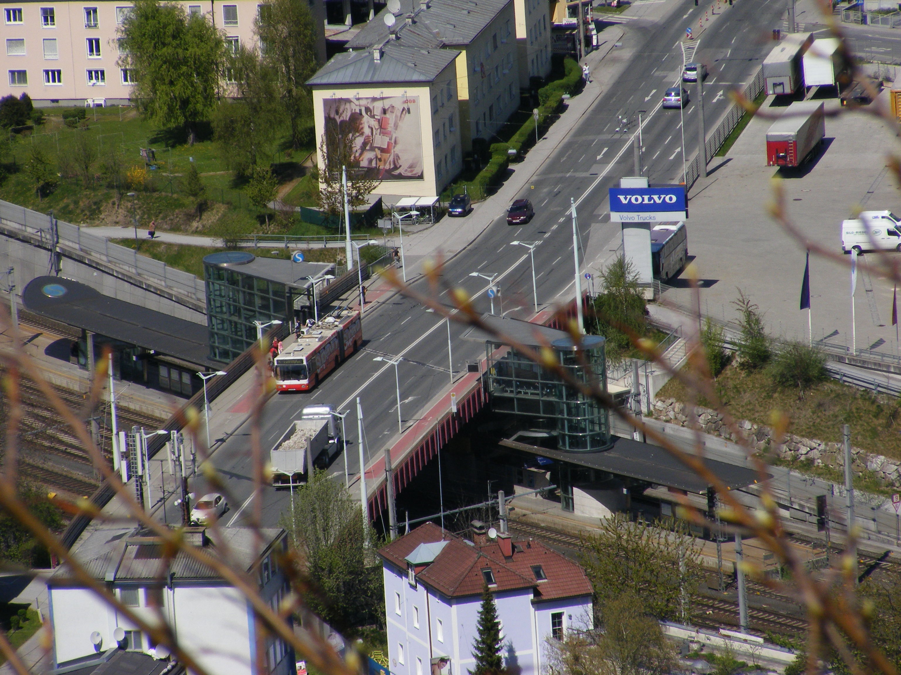 Minnesheim bridge and suburban railway line station Salzburg Gnigl, city of Salzburg, Austria